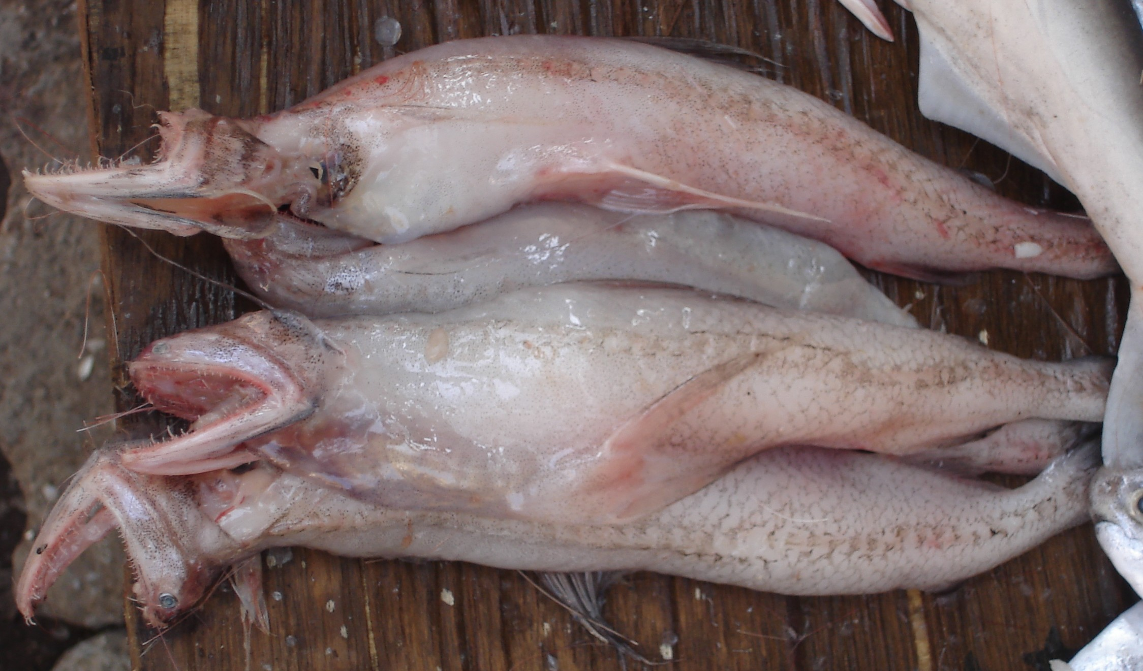 Bombil or Bombay duck fish (Harpadon nehereus) on display in a street fish market in Mumbai